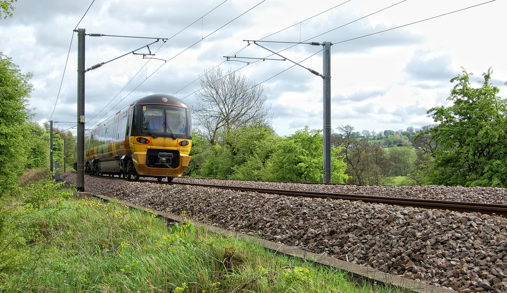 A Bradford-bound metro train rolls down the tracks past a disused connecting line at the old Milnerwood Junction, near Burley station in Yorkshire. Part of the railway is still open, forming what is now known as the Wharfedale Line. It used to connect to Otley via two seperate points in a triangular formation to support both north and south bound locomotives. The place depicted in this image was the northwestern node of Milnerwood. You can find the original high resolution copy of the photograph online in this set of images.